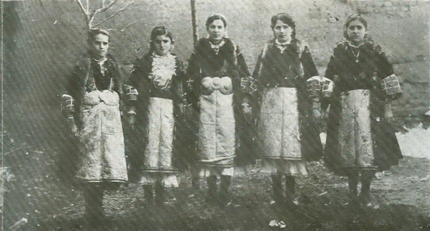 Women in national costumes from Resen